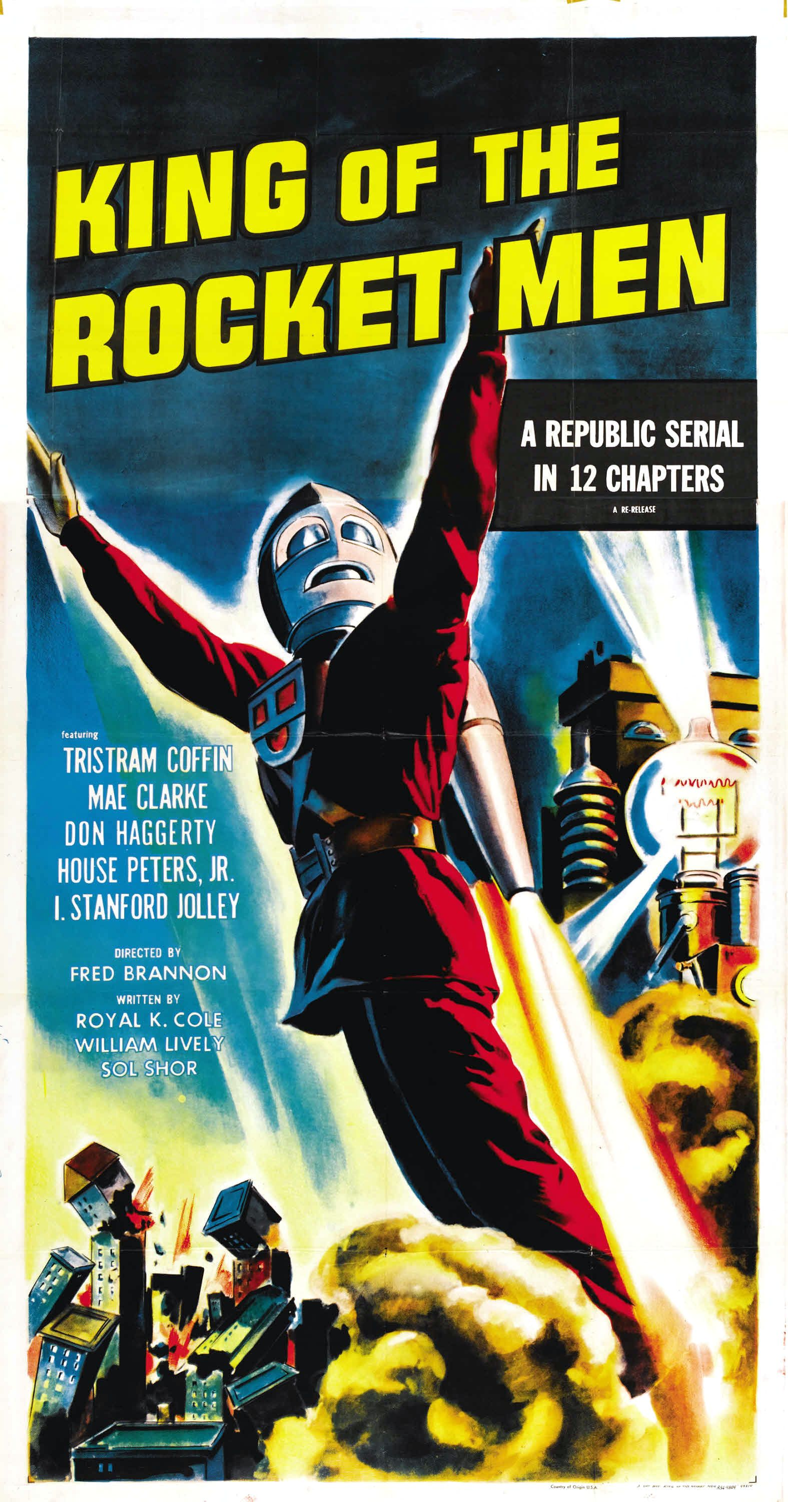 Poster for the 1949 film King of the Rocket Men. The item has no copyright markings on it as can be seen in the links above. At bottom is Country of origin USA, 3 Sht-Art-King of the Rocket Men-R56=4804-48814